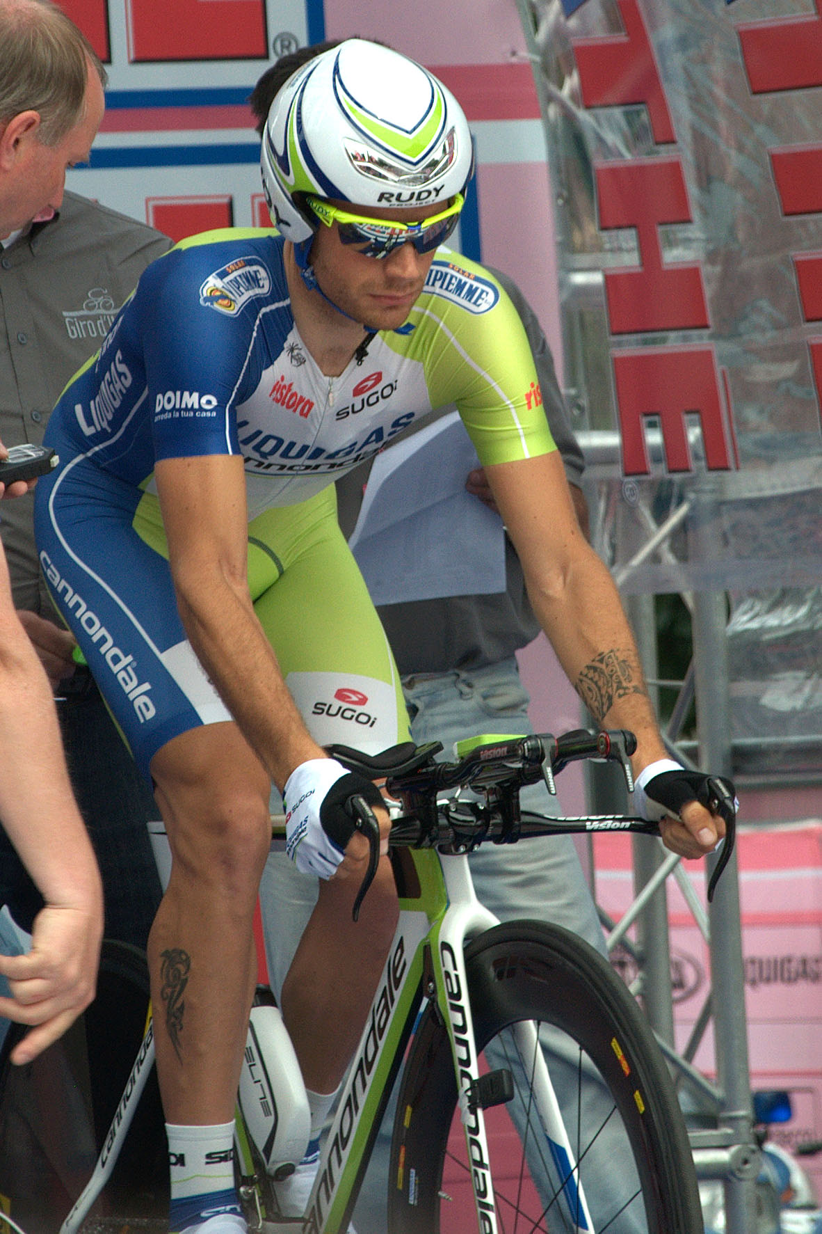 Damiano Caruso before the start of 2012 last stage of Giro d'Italia